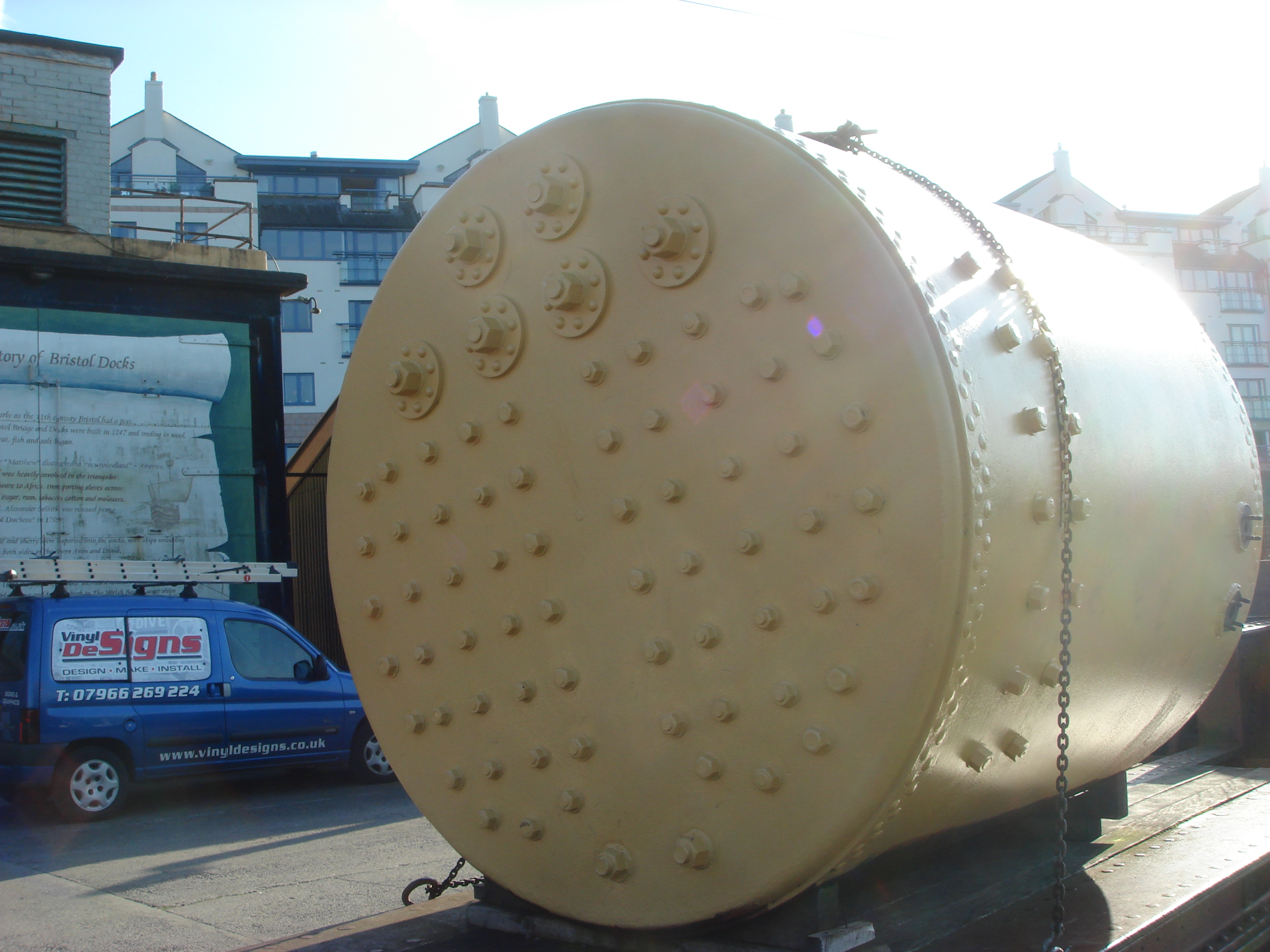 Scotch marine boiler at the Bristol Industrial Museum. This is the end of the boiler opposite the two furnaces. Inside the boiler are two combustion chambers that link the furnace to the return tubes above. The combustion chambers cannot be seen, but their double walls are supported by the many bolted stays visible in the end plate and the sides of the boiler. The larger stays above are longitudinal stays that run the whole length of the boiler. Approx 9' diameter.